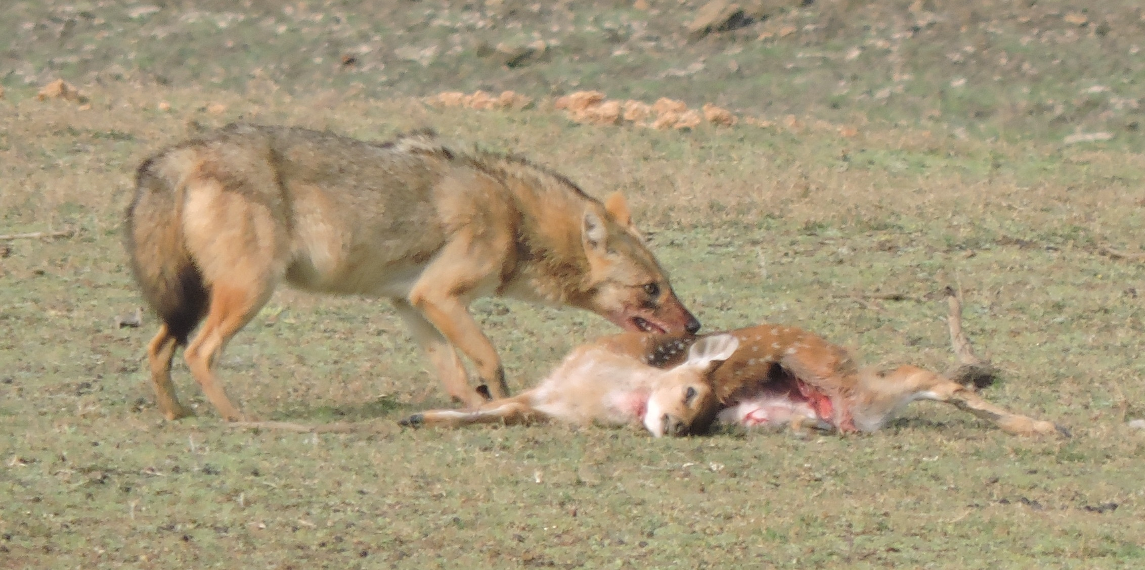 Indian jackal eating chital carcass, Pench National Park